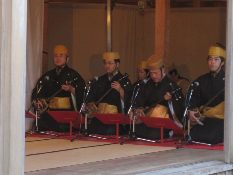 okinawa costume